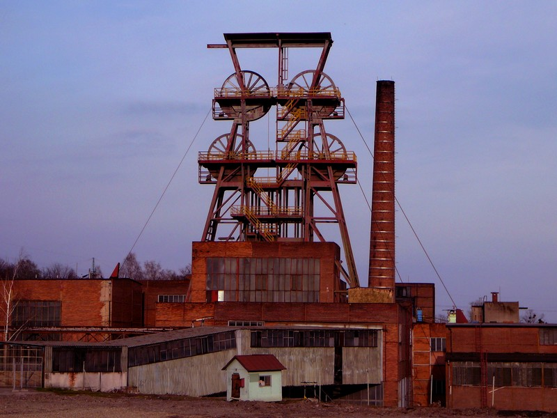 Mining tower of coal mine Doubrava, Czech Republic.